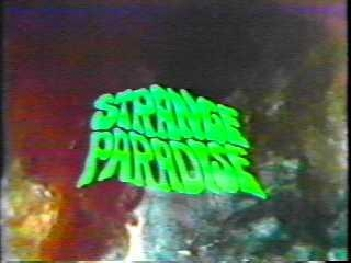 Photo of Strange Paradise television show